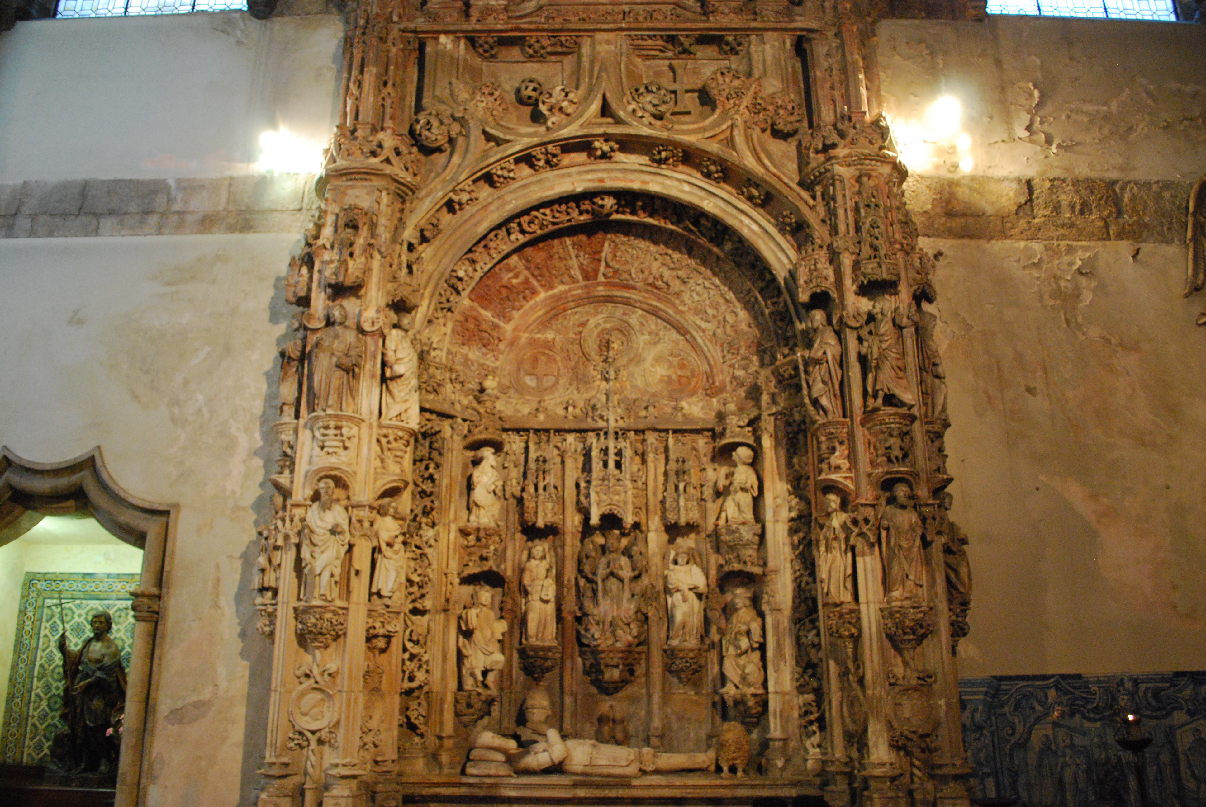 This file was uploaded for Wiki Loves Monuments in Portugal with the unique identifier 69813.